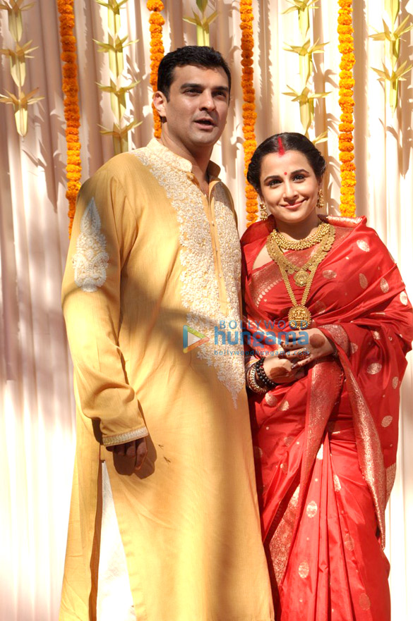 Vidya Balan gets married to Siddharth Roy KapurVidya Balan gets married to Siddharth Roy Kapur